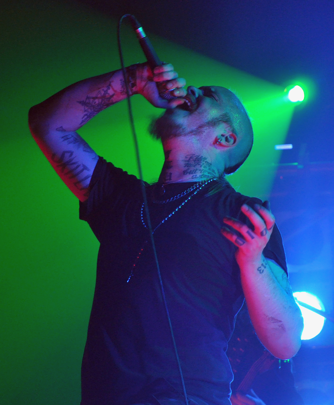 Kvarforth, the singer of Shining, performing at the Kings Of Black Metal in Alsfeld (Germany), on the 21st of April 2012.